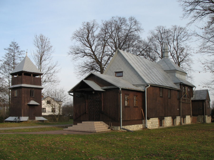 Stare Oleszyce (Poland), former Greek Catholic church (now Roman Catholic)